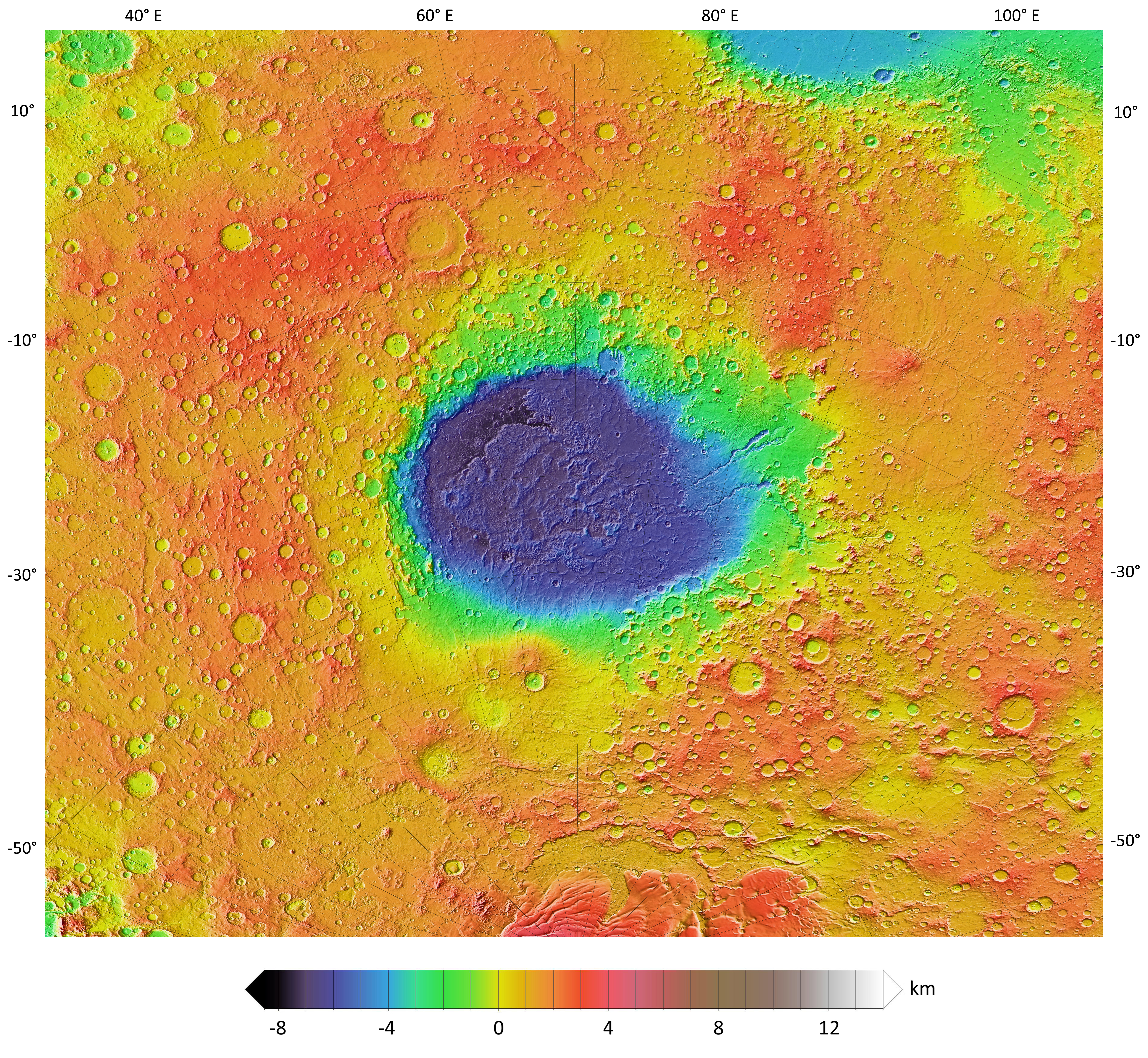 A colorized topographic map of the martian impact basin Hellas, together with its surroundings, from the Mars Orbiter Laser Altimeter (MOLA) instrument of the Mars Global Surveyor spacecraft. Hellas, the deepest basin on Mars, lies in the southern hemisphere, south of Syrtis Major Planum.